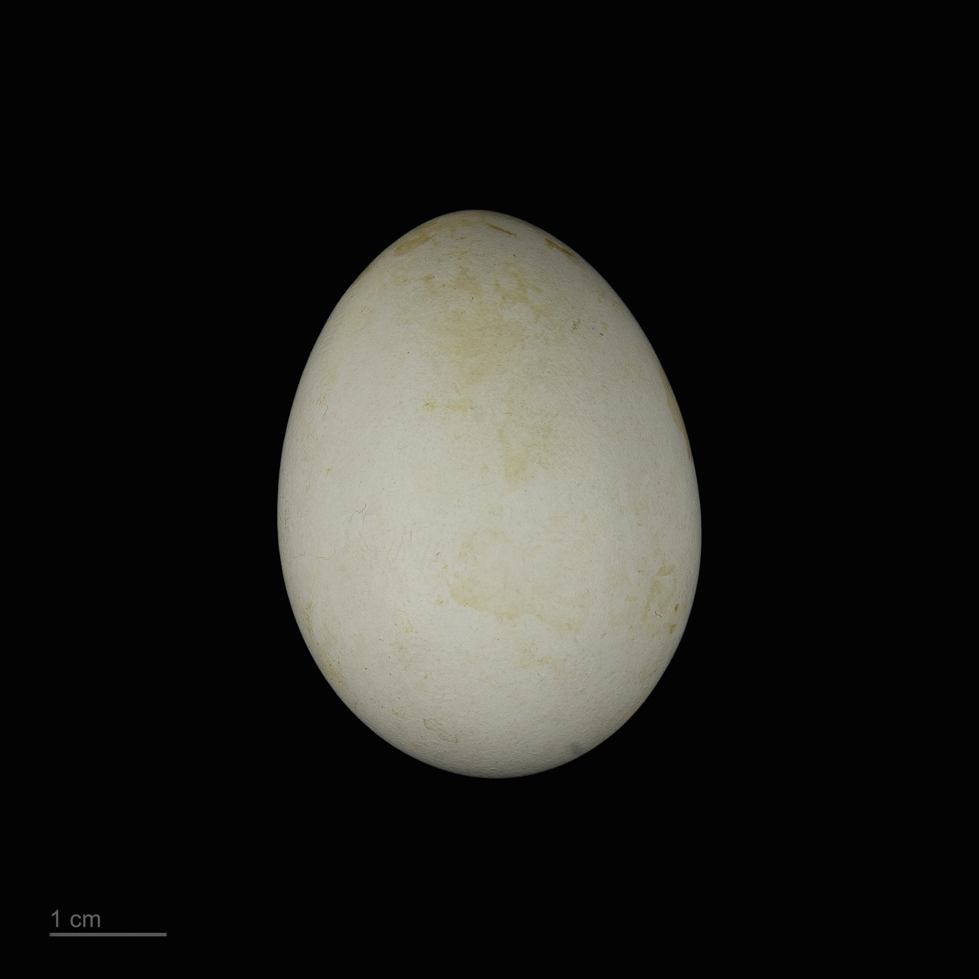 Eggs of Levant sparrowhawk collection of Jacques Perrin de Brichambaut.